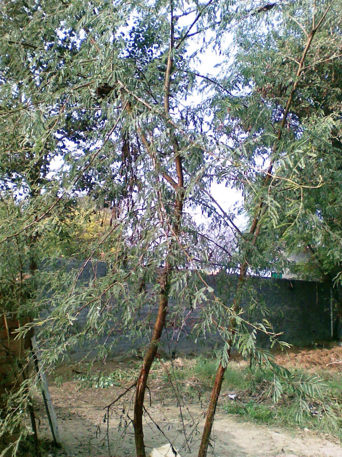 A Kakkar plant in natureਪੰਜਾਬੀ: ਕੁਦਰਤ ਵਿਚ ਕਿੱਕਰ ਦਾ ਪੌਧਾ